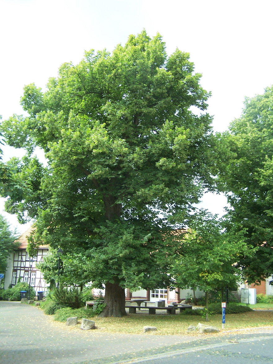 The central meeting place with linden trees.